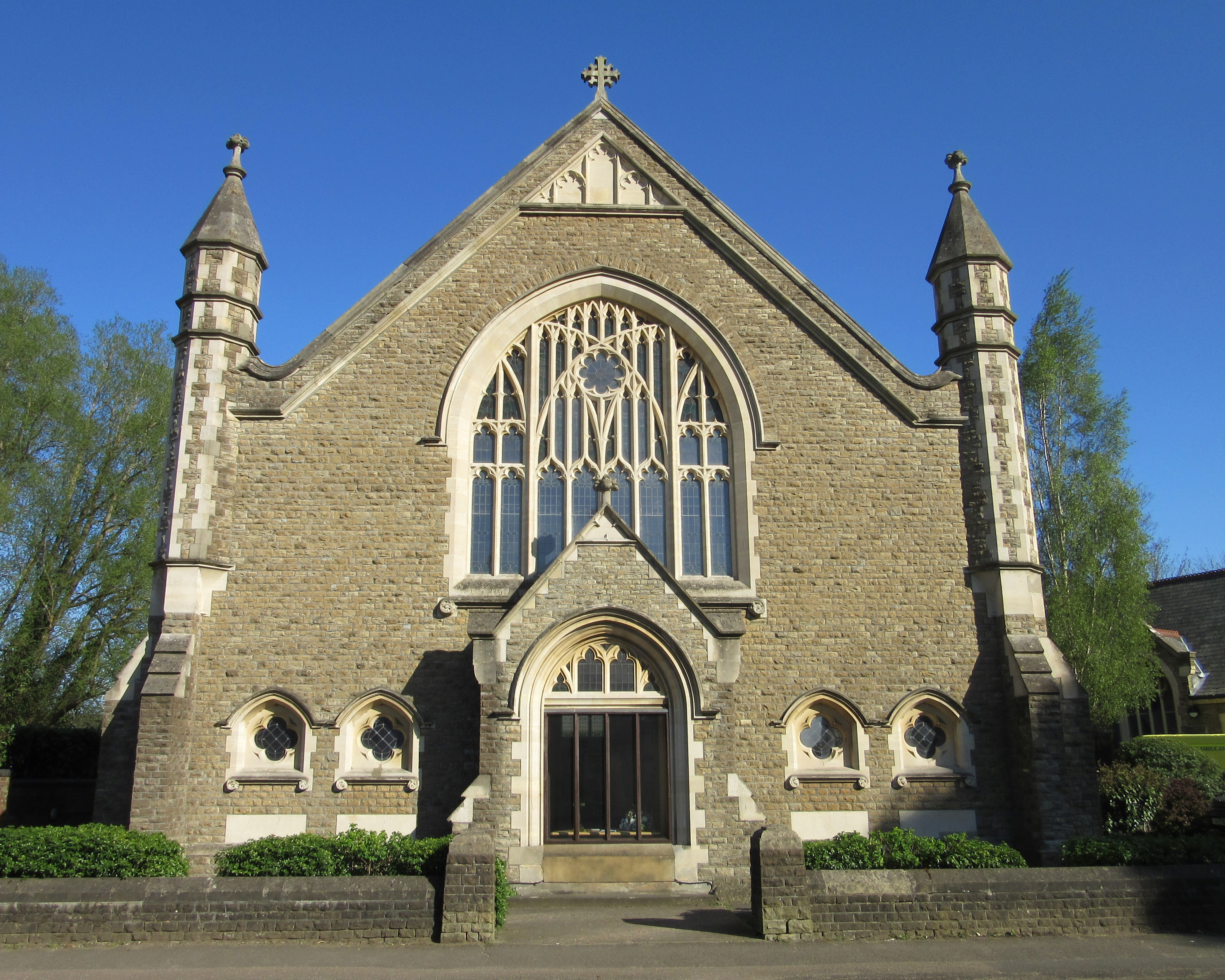 Godalming United Church, Bridge Road, Godalming, Borough of Waverley, Surrey, England. A joint Methodist and United Reformed church. It was originally the town's Methodist chapel.